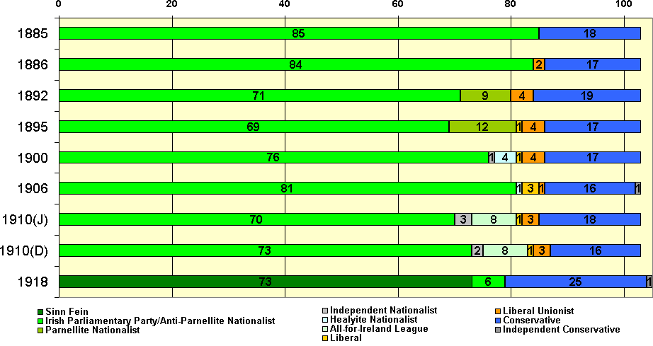 Barchart showing the distribution of seats by party of Irish constituencies in the United Kingdom House of Commons 1885-1918. Original artwork uploaded by the creator. Generated using Microsoft Excel with data from F. W. S. Craig's British parliamentary election results 1885-1918 (Macmillan, 1974).